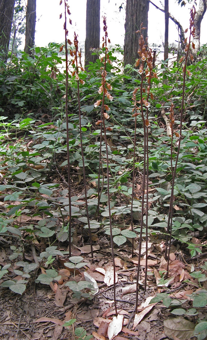 Gastrodia procera (Tall Potato-orchid) . Leafless plant on single stalk to 90 cm. Flowers Late Spring - Autumn